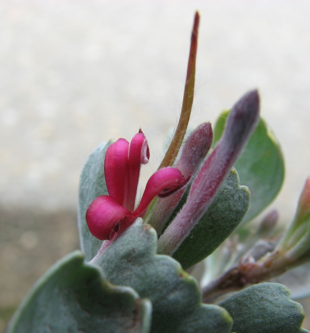 Flower of Adenanthos cuneata (cultivated, not labelled) Royal Botanic Gardens Cranbourne, Victoria, Australia